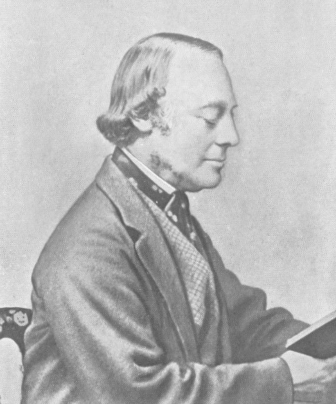 From Sir Stephen Glynne “Edited and Transcribed by Archdeacon D R Thomas)Notes on the Older Churches in the Four Welsh Dioceses, 1903.